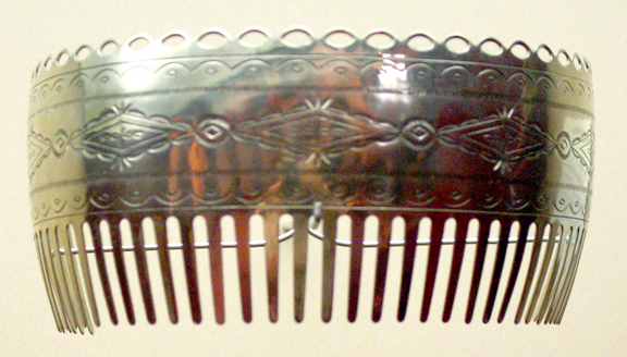 Ornamental German silver hair comb made by Bruce Caeser (Pawnee-Sac and Fox), Oklahoma, 1984, collection of the Oklahoma Historical Society.